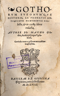 Frontispiece of Gothorum Sveonumque Historia by Johannes Magnus